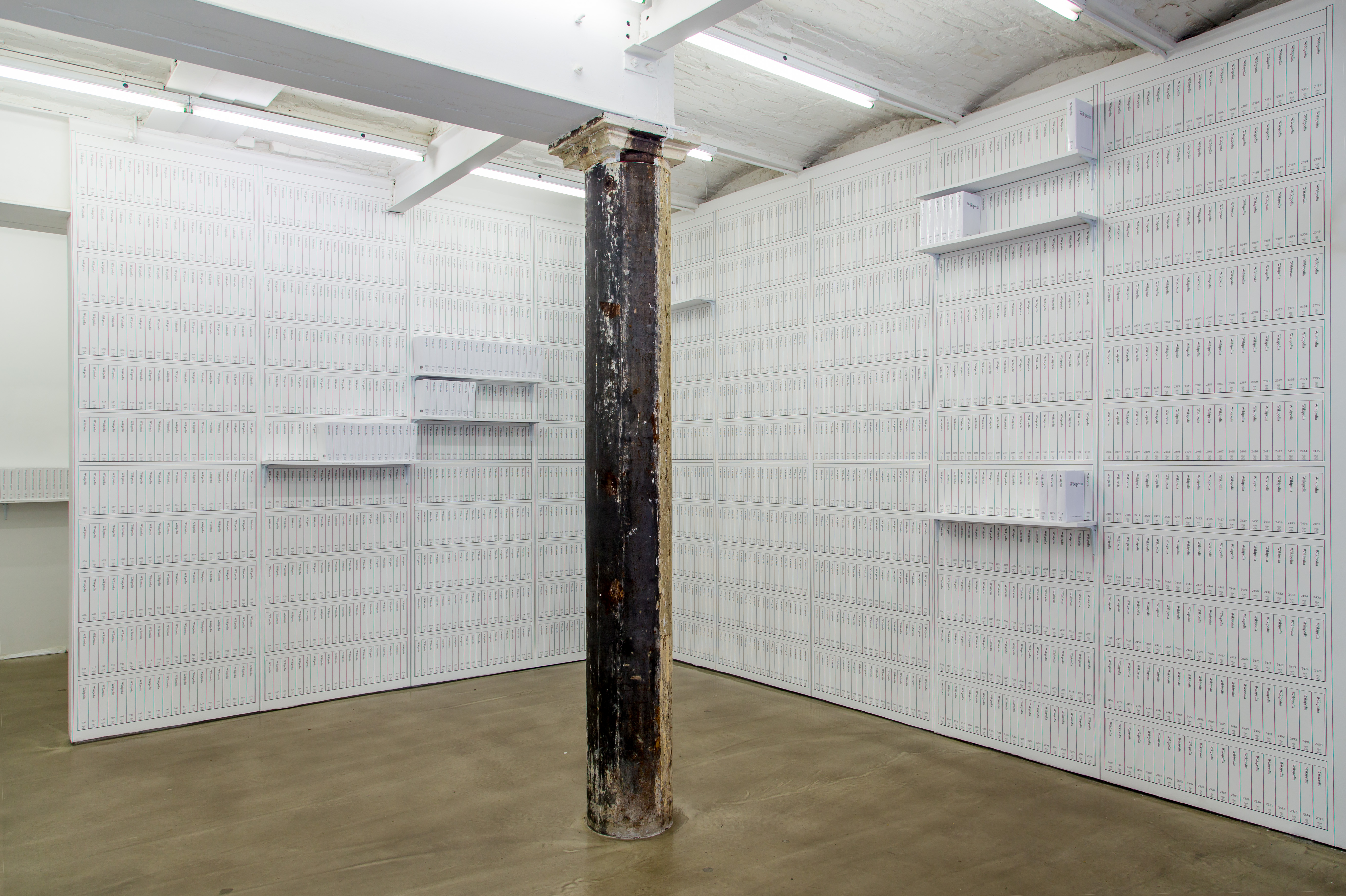 Installation view of From Aaaaa! to ZZZap!, works from Print Wikipedia, by Michael Mandiberg at Denny Gallery.